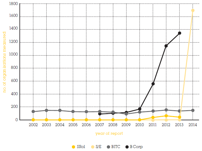 A report for the Loomba Foundation Project